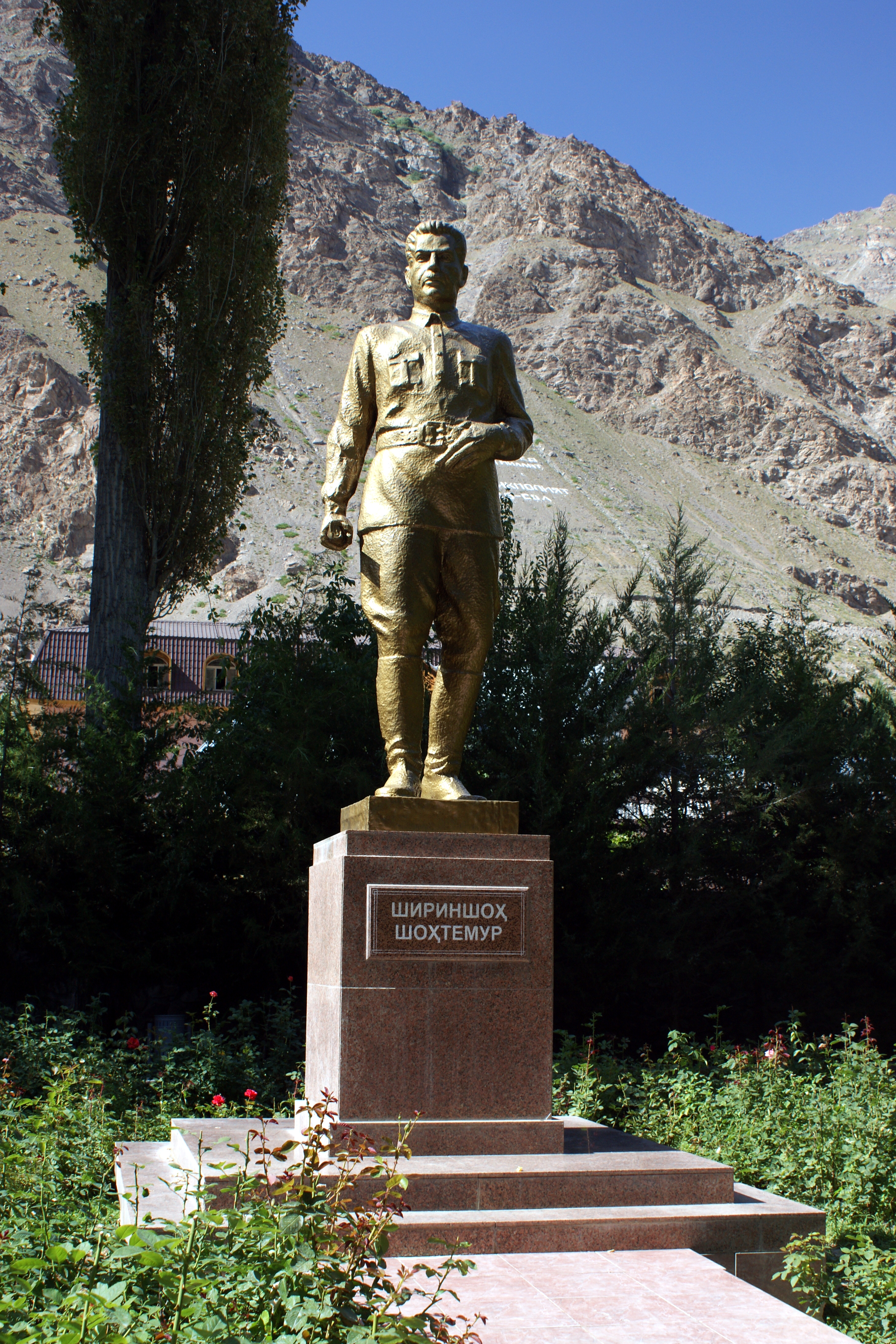 Statue in Khorugh Central Park